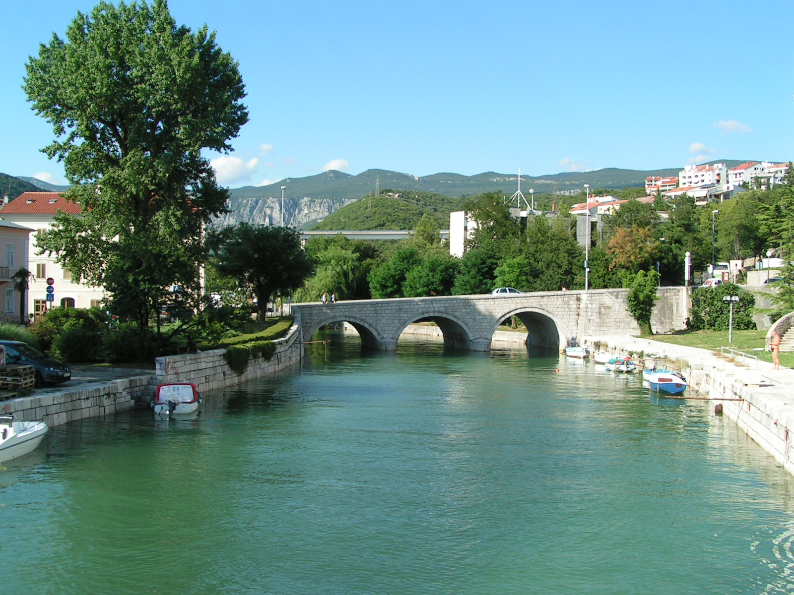 Crikvenica - "Bridge over trouble water"